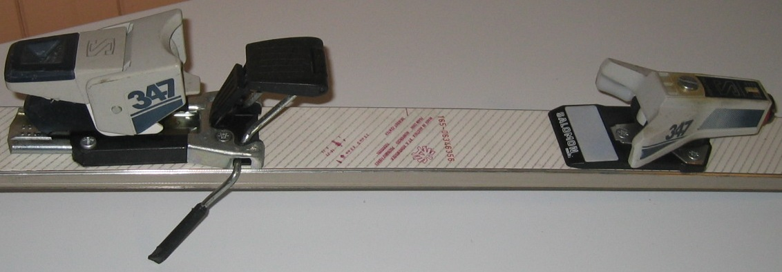 Alpine ski boot from the 1980s.